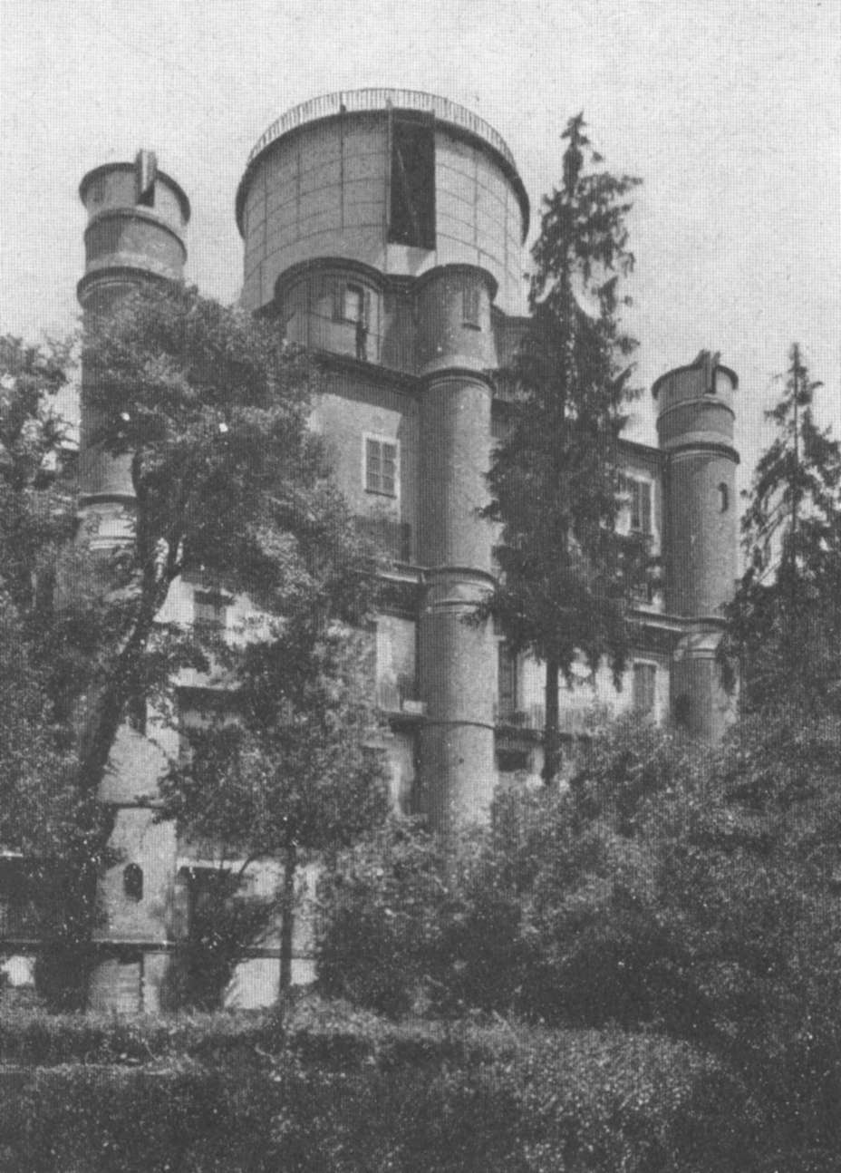 Dome of Brera Astronomical Observatory, Milan, Italy, at the Palazzo di Brera.